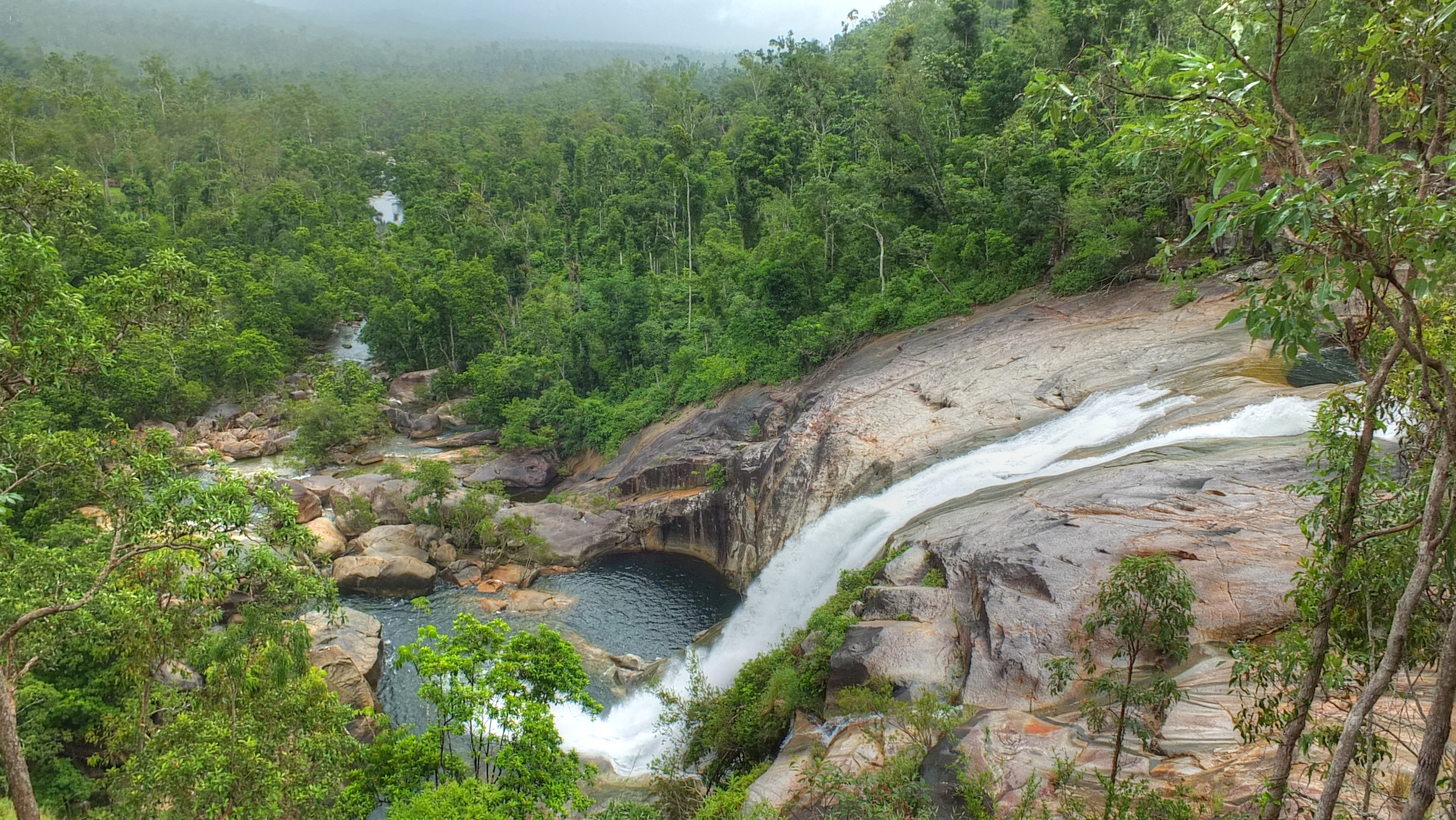 An image of Murray Falls in the Girramay National Park, Queensland.